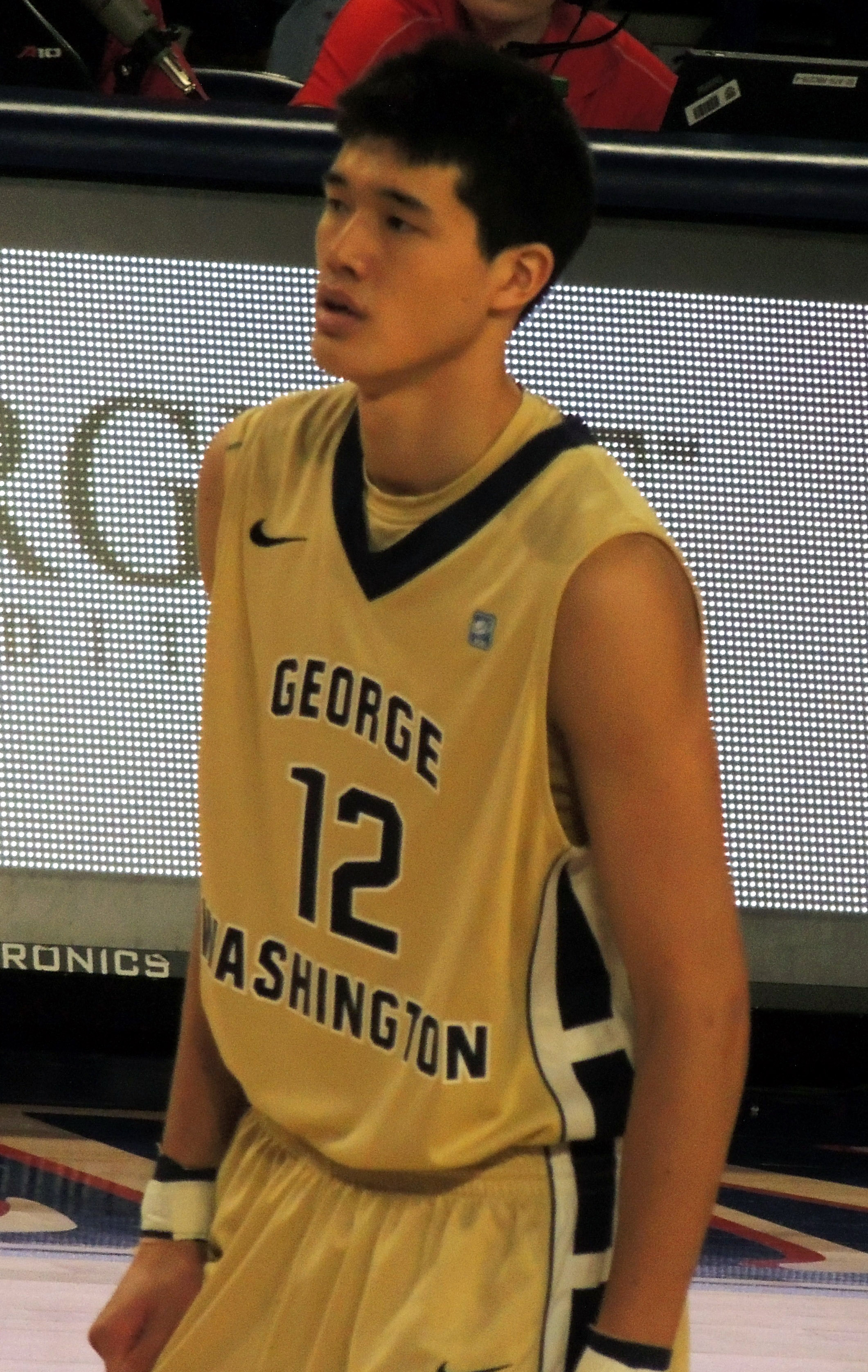 Yuta Watanabe playing for George Washington University in February, 2015